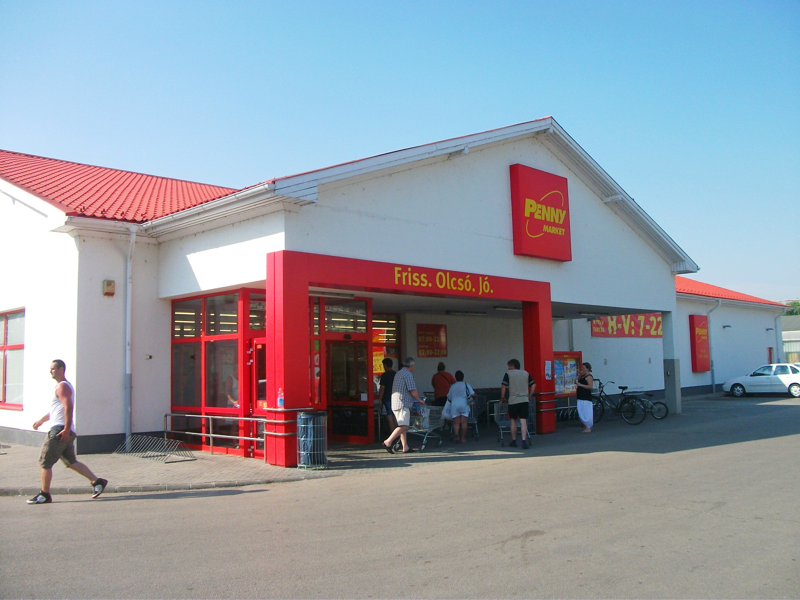 Penny Market in Gárdony, Hungary.